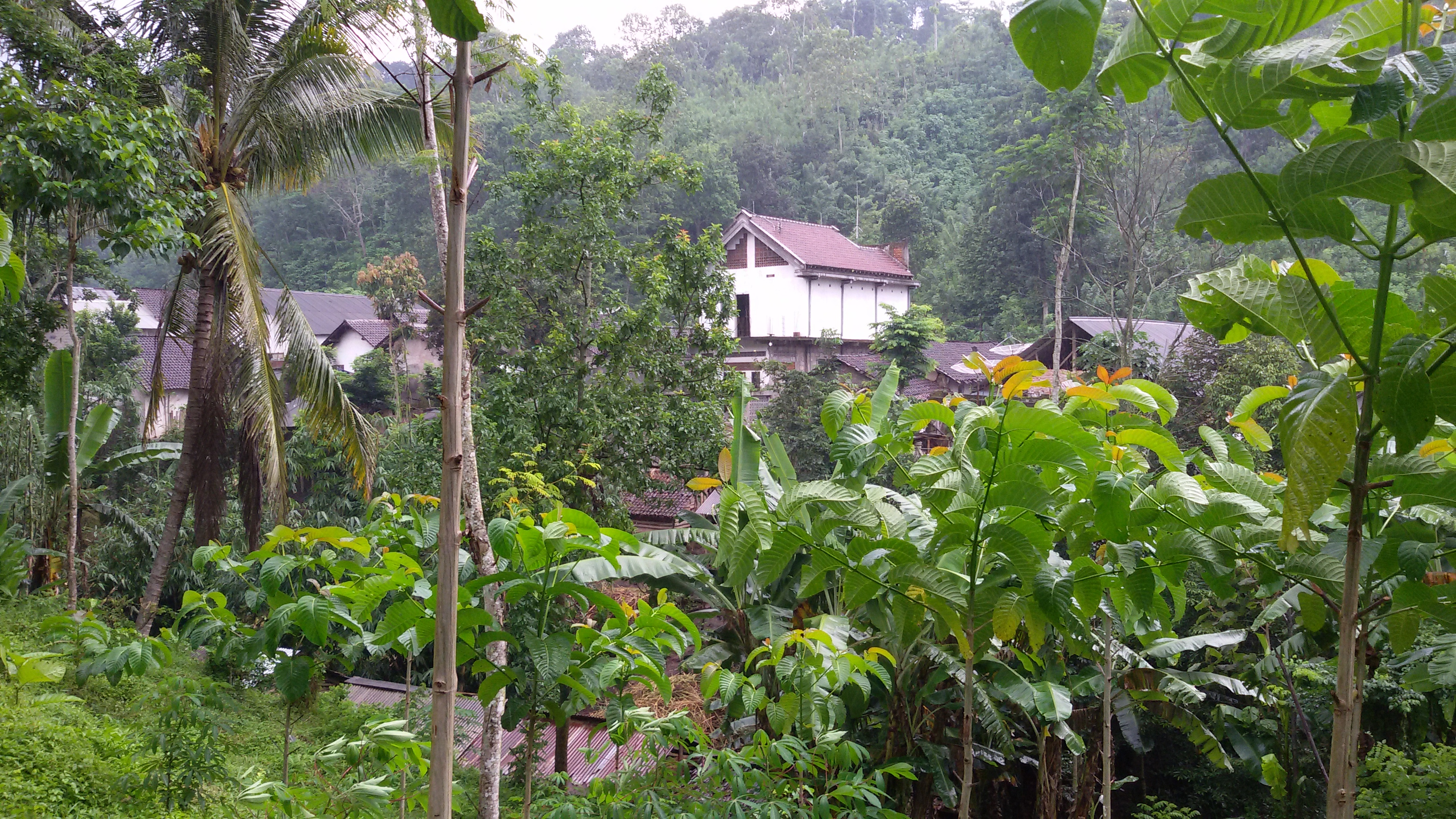 An afdeling on Gumitir mountain